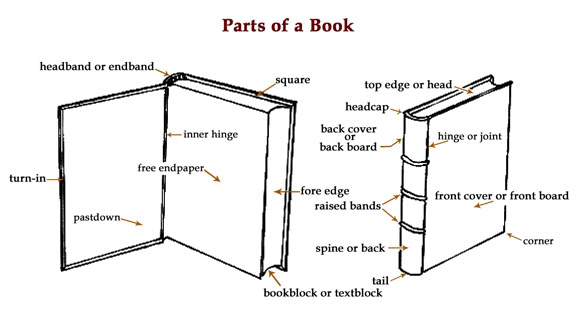 Parts of a modern case bound book